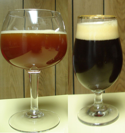 two different kinds of barley wines composed from and by Joe, Flikr user MontageMan